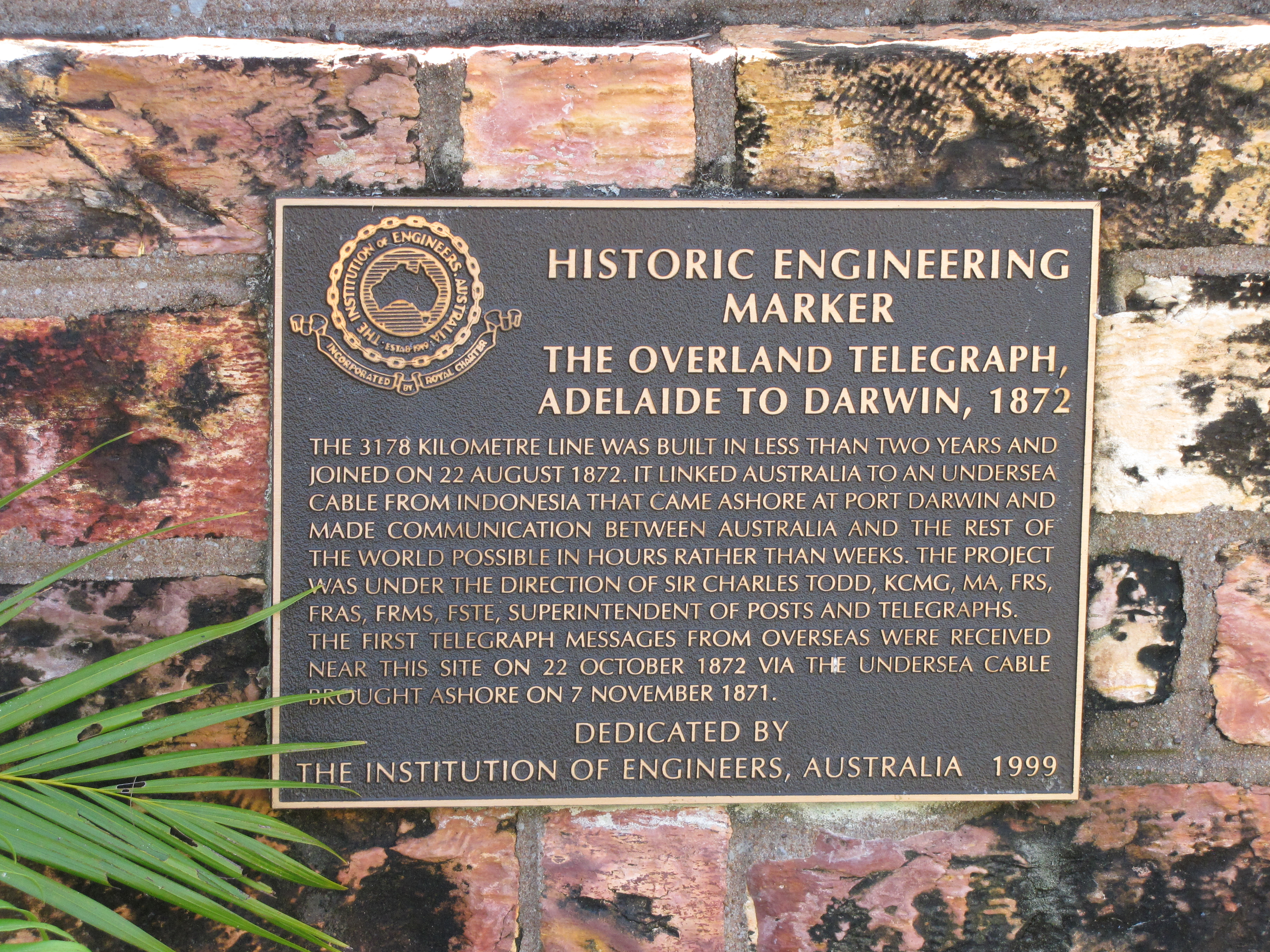 The memorial plaque in the shadow of the NT Legislative Assembly to celebrate the joining of the Overland Telegraph at a point 30km south of Dunmara on August 22, 1872. The bricks in this memorial are from the original overseas cable station built on this site in 1871.